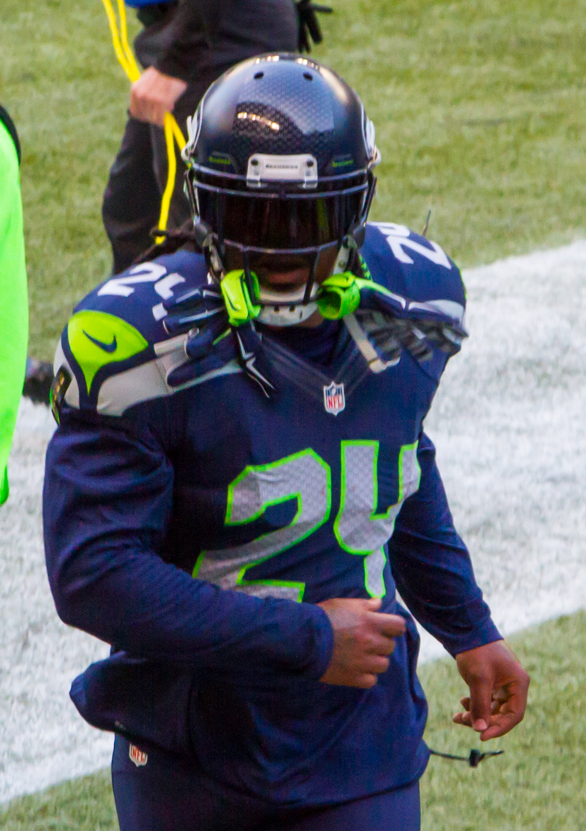 Marshawn Lynch in 2014 preseason